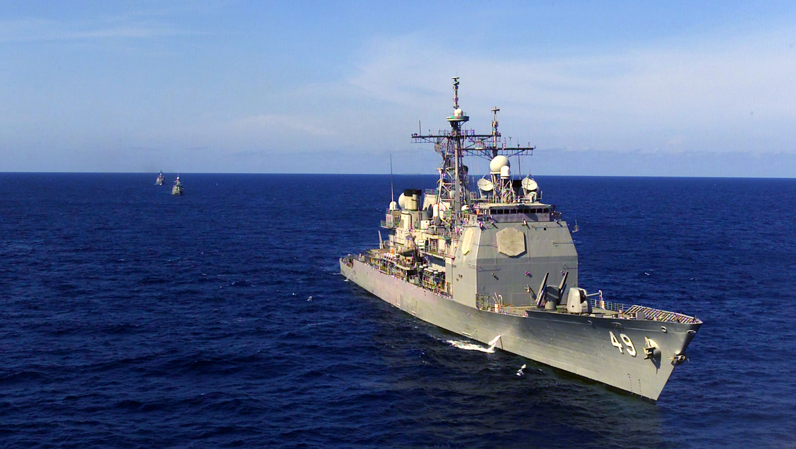 030612-M-7403H-067 Gulf of Thailand -- The U.S. Navy guided missile cruiser USS Vincennes (CG 49) conducts training operations with the Royal Thai Navy guided missile frigate HTMS Naresuan (FFG 421) and the U.S. Navy guided missile frigate USS Curts (FFG 38) during the Thailand phase of Cooperation Afloat Readiness and Training (CARAT). CARAT is a regularly scheduled series of bi-lateral military training exercises between the U.S. and several Association of Southeast Asian Nations (ASEAN).